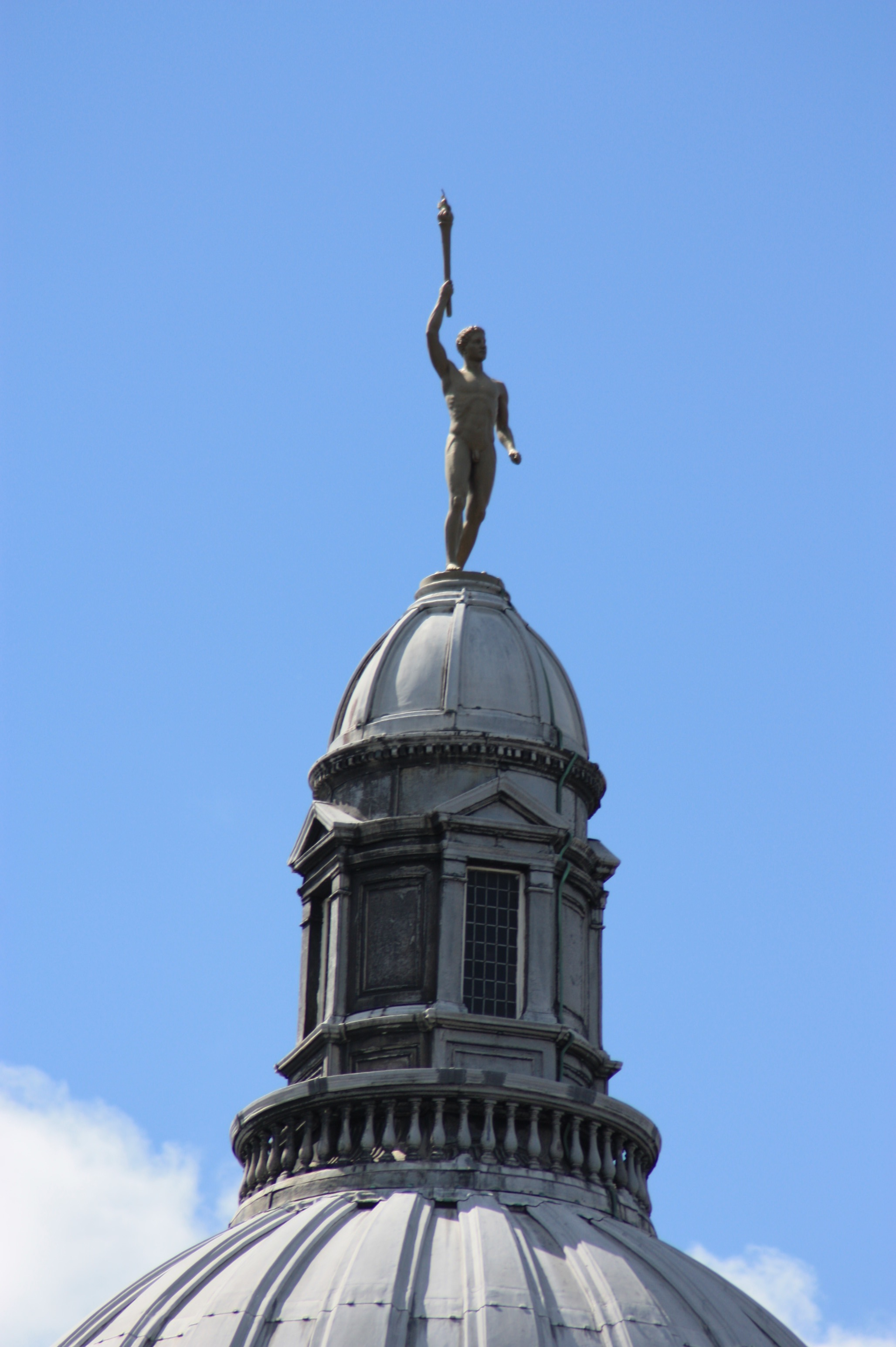 Figure of Youth on the dome of Old College Edinburgh